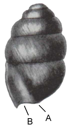 Vertigo moulinsiana; pulmonate land snail species; showing apertural features